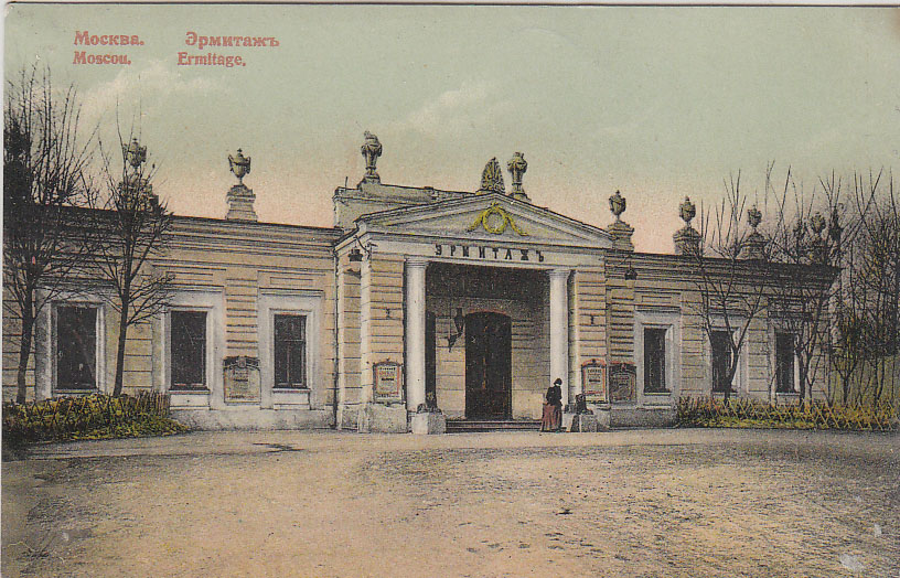 The Hermitage theatre (Moscow). 1900s